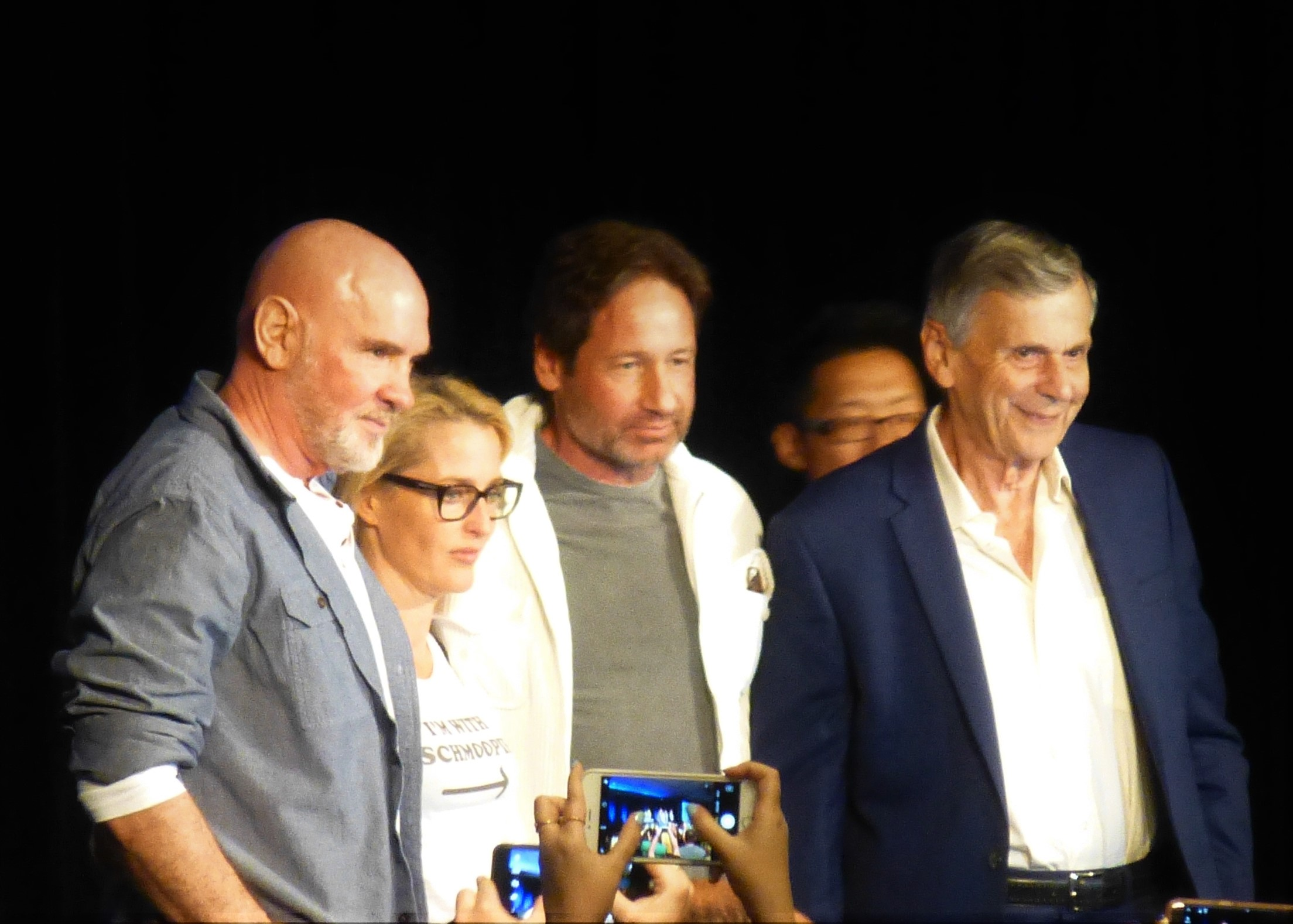 XFiles Reunion. Mitch Pileggi, Gillian Anderson, David Duchovny, William B Davis